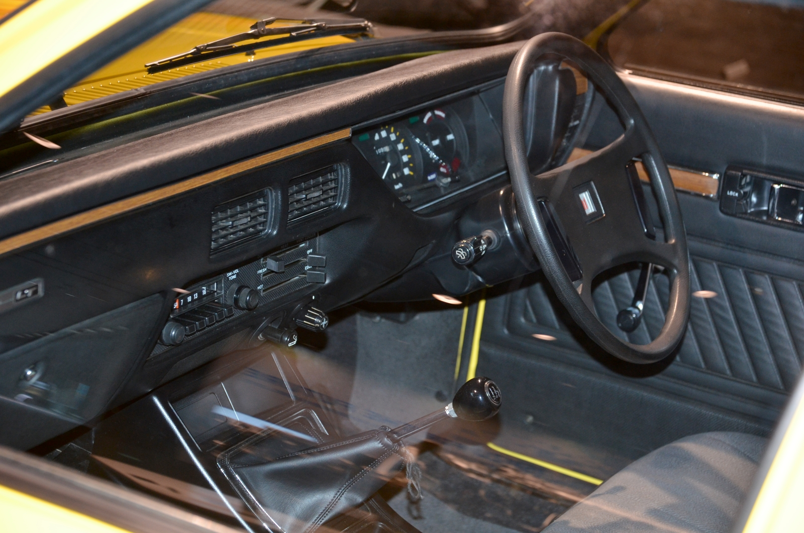 Isuzu Gemini LT interior